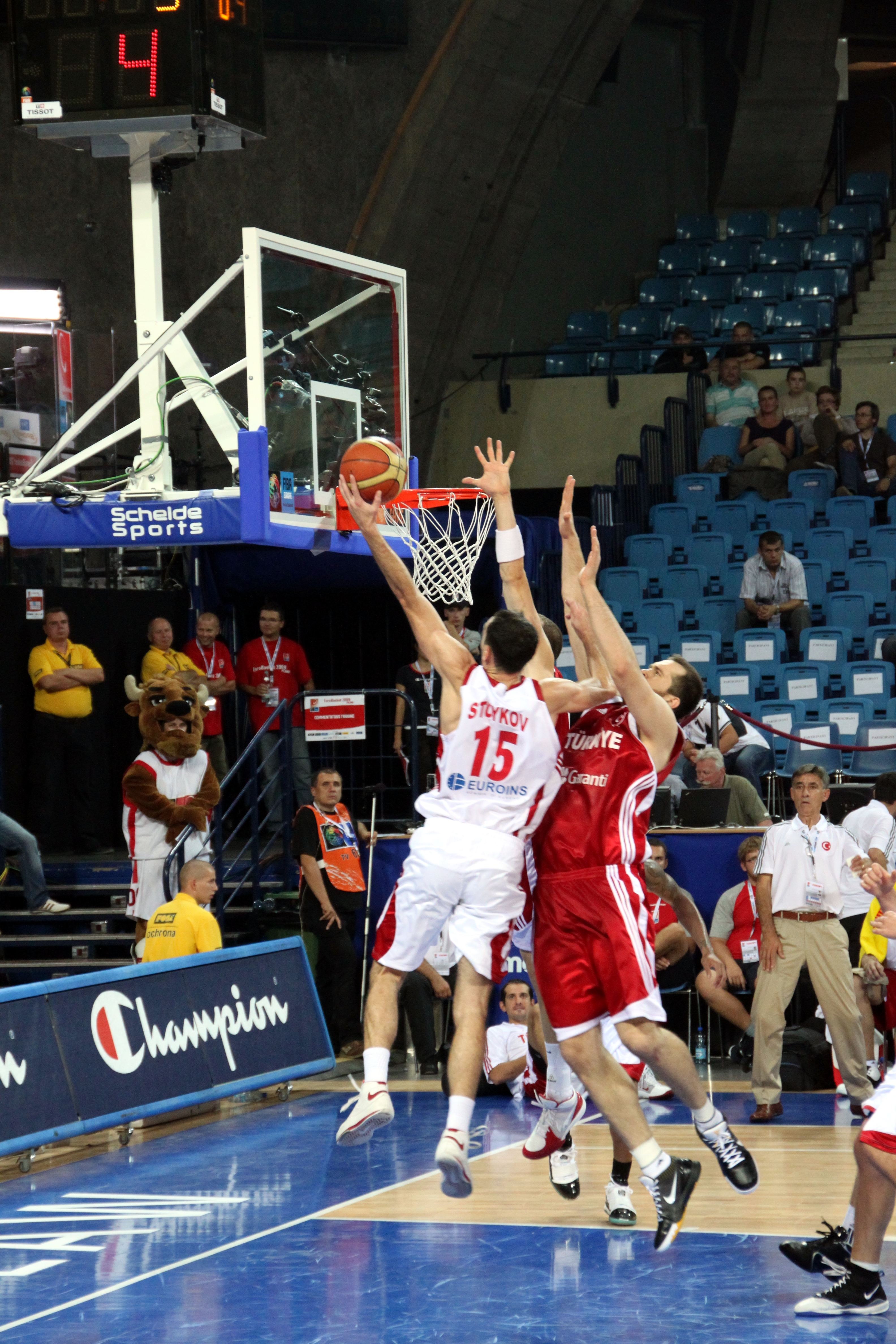 Todor Stoykov is trying to achieve a basket but finally he will fail... (Bulgaria - Turkey 66-94, Eurobasket 2009)